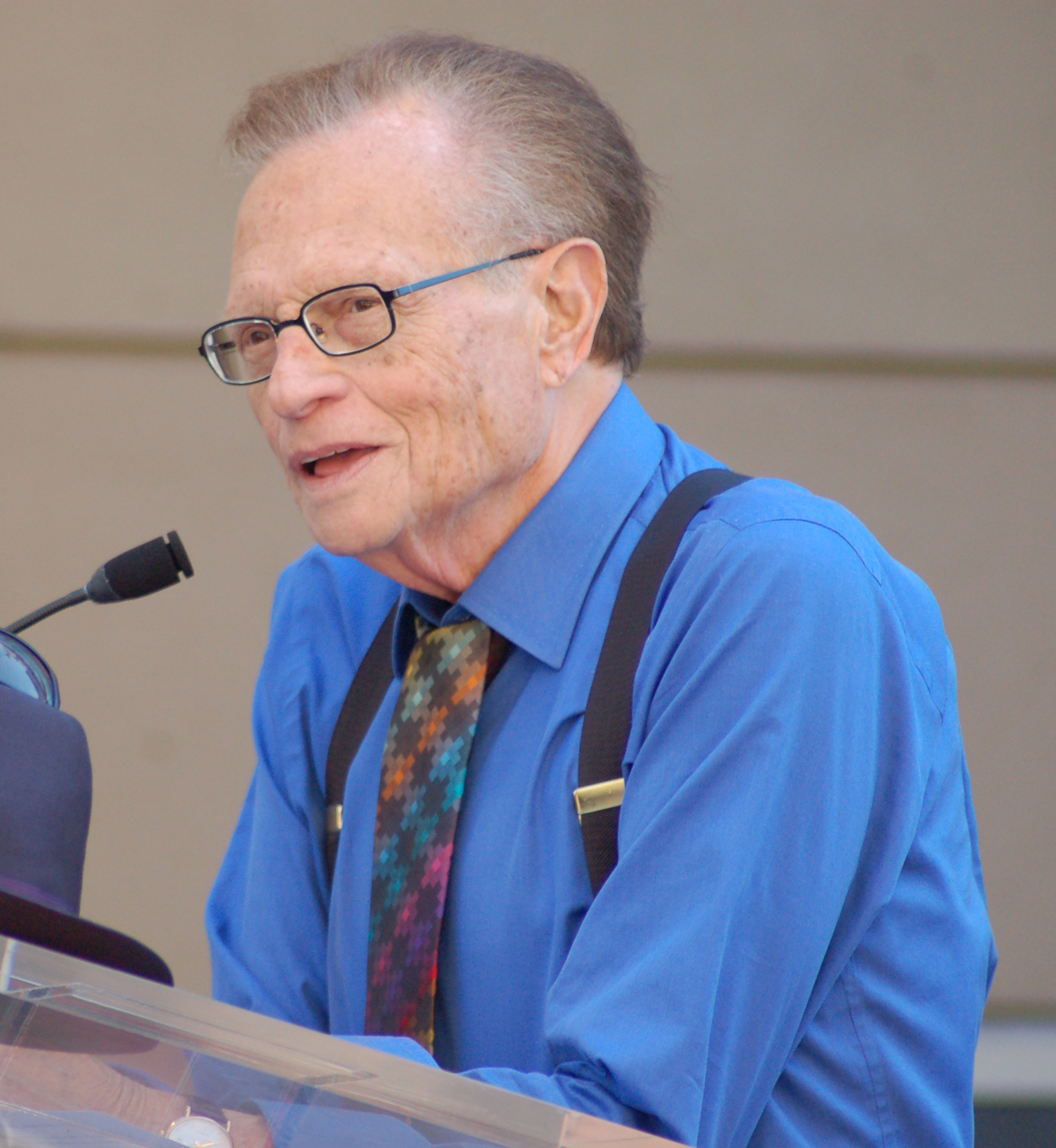 Larry King attending a ceremony for Bill Maher to receive a star on the Hollywood Walk of Fame.